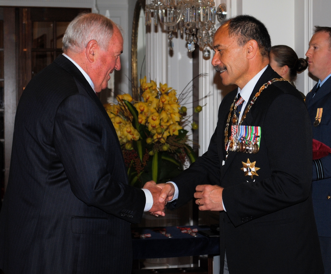 John Anderson, MNZM, Warkworth